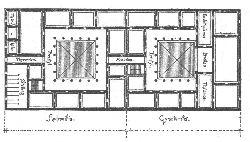 Own scan from old diagram